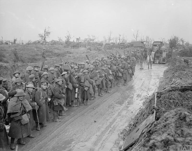 The Battle of the Somme, July-november 1916 Troops of the 2nd Battalion, South Wales Borderers, on the road to the trenches in the rain at Montauban, October 1916.